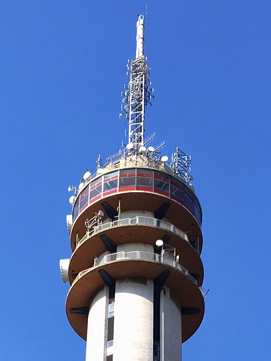 Broadcasting tower at Louise Henriëttestraat 385 in The Hague in the Bezuidenhout district. The tower is 99 meters tall, including the antenna it's 133 meters tall. It was constructed in 1967.